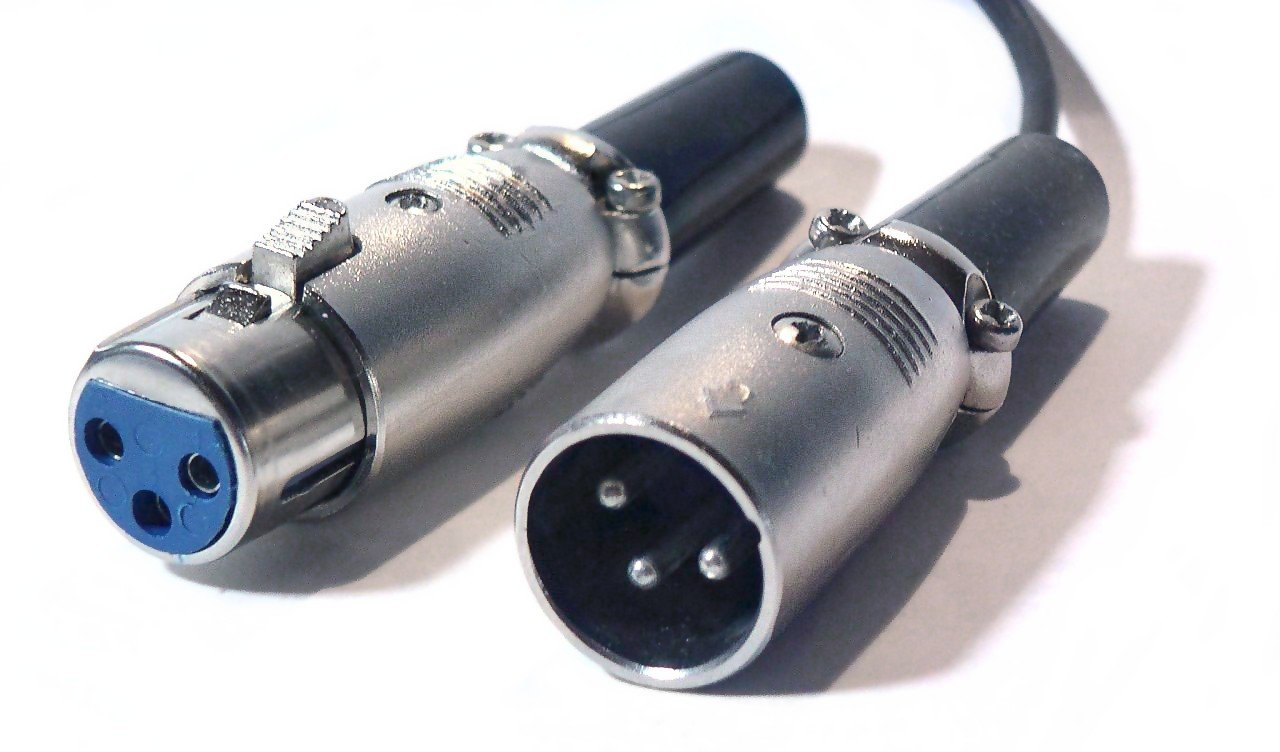 Description: Female (left) and male (right) XLR connectors Source: self-made Photographer: Michael Piotrowski (2005-06-04)